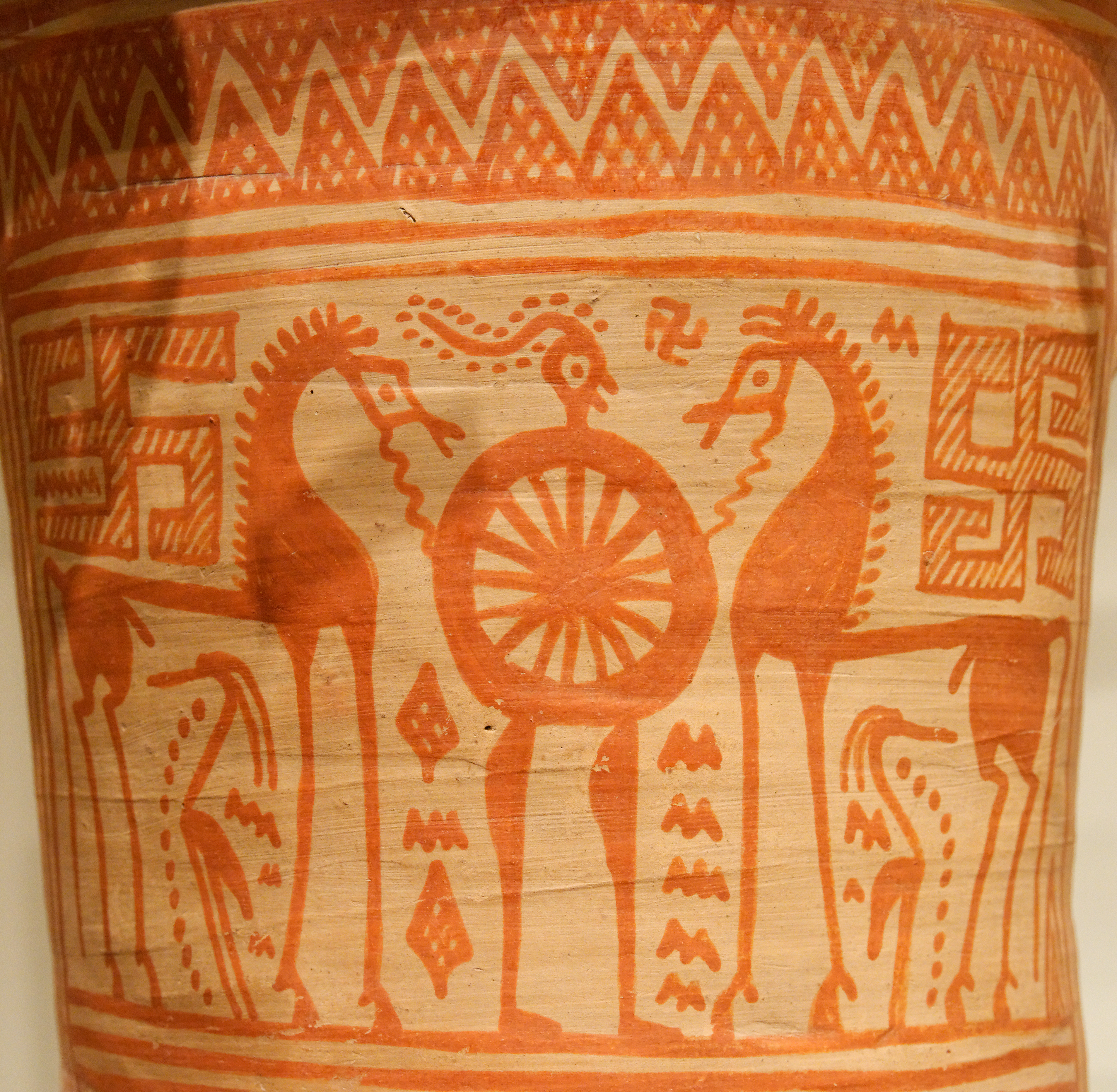 Warrior with two horses, neck from an Attic Geometric neck-amphora.